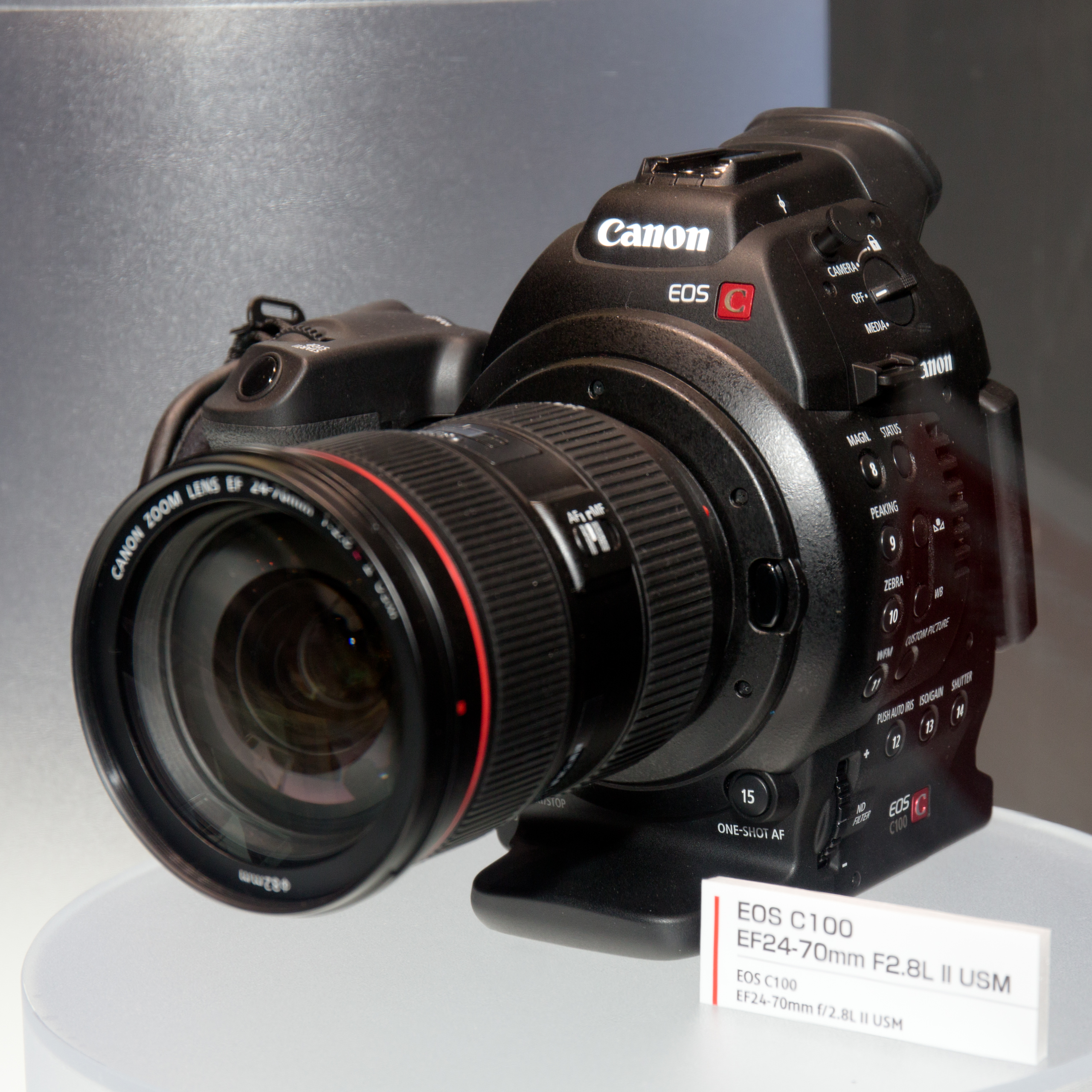 CP+ 2013: 2012 Canon EOS C100